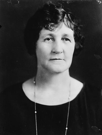 Miriam Amanda Wallace Ferguson (1875 - 1961), American politician